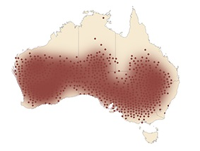 Map of Australia with distribution range of Chestnut-rumped Thornbill